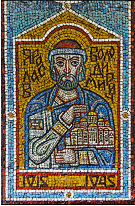 Yaroslav I of Kiev